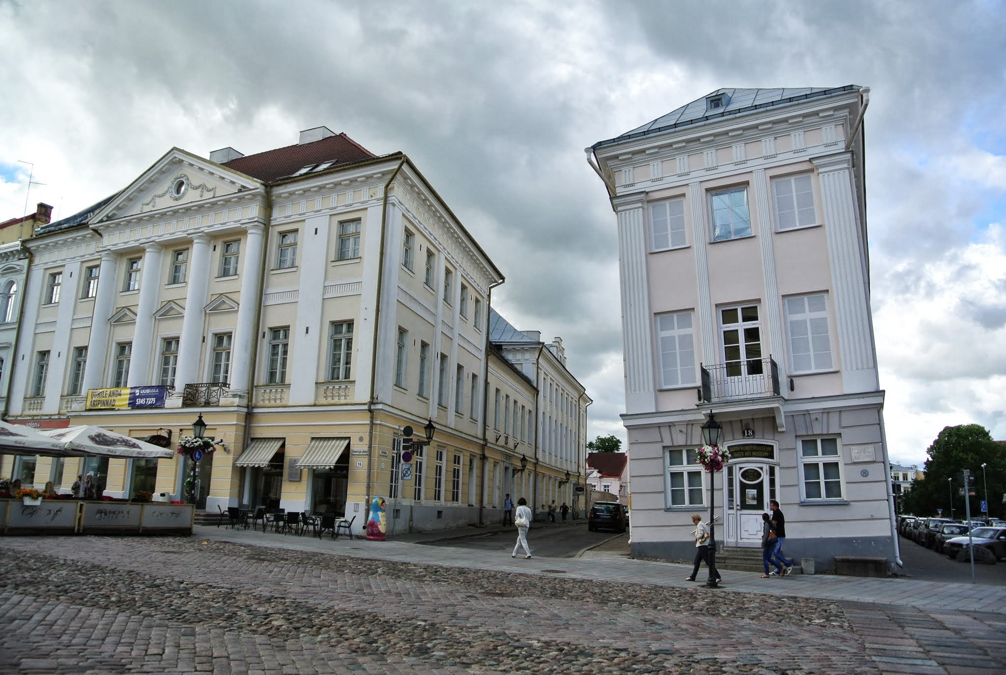 Tartu, Estonia